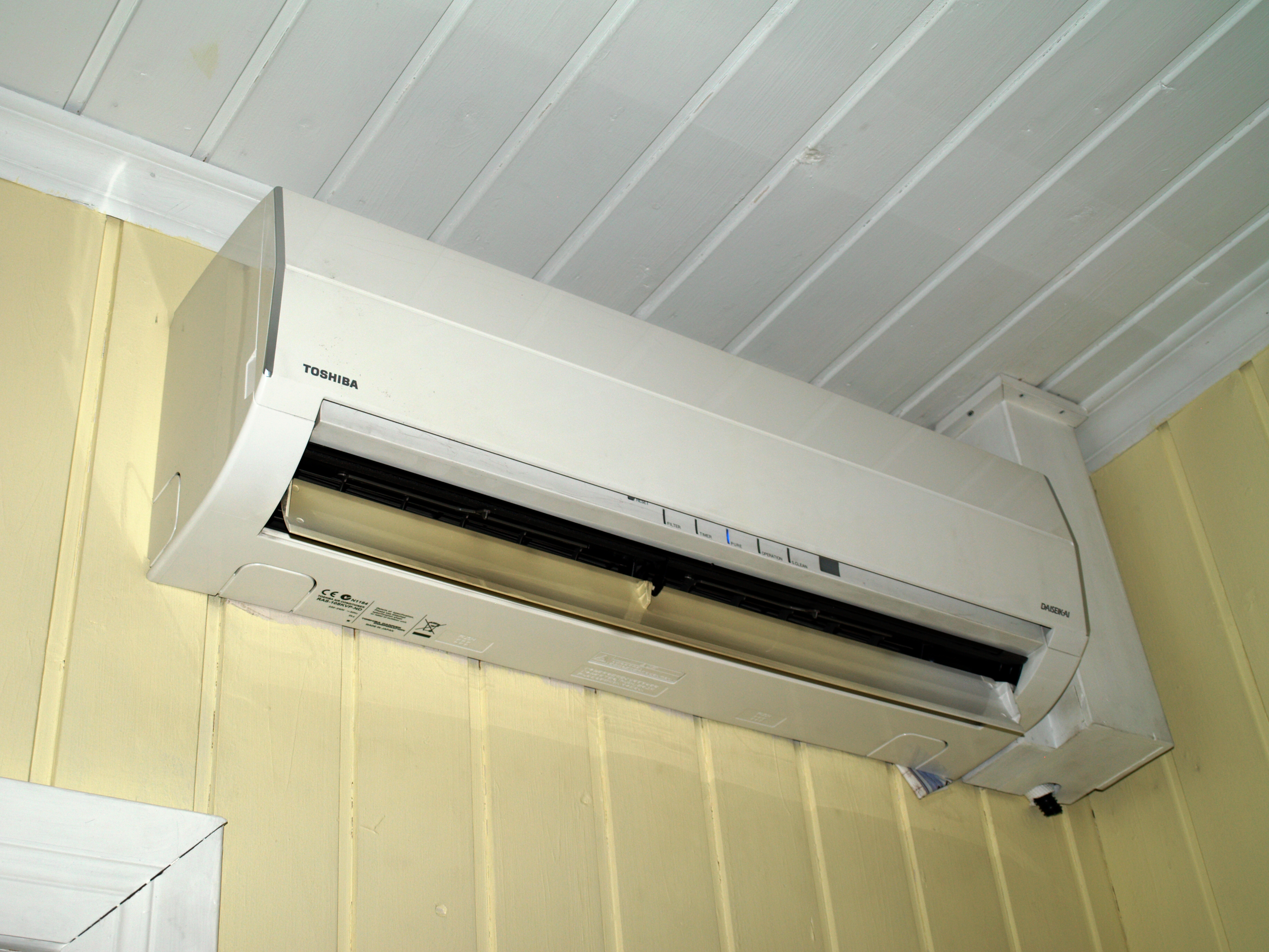 Toshiba Daiseikai RAS-10PKVP-ND Air Conditioner.